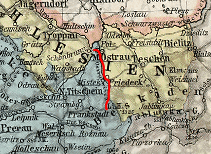 Ostrau-Friedlander Eisenbahn (OFE) network